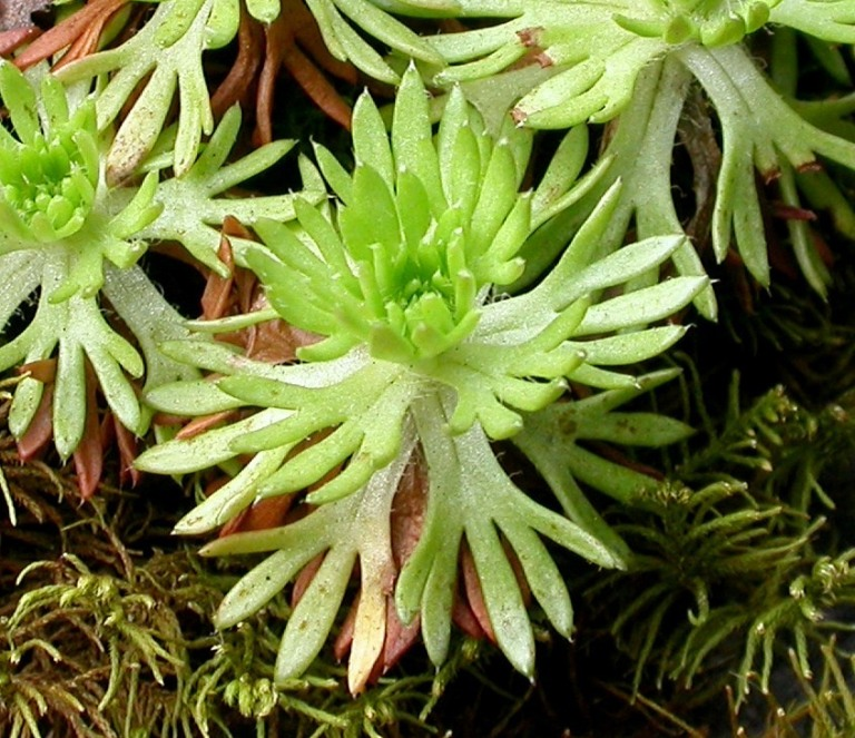 Leaf rosette of Saxifraga rosacea subsp. sponhemica, Srbsko, Czech Republic